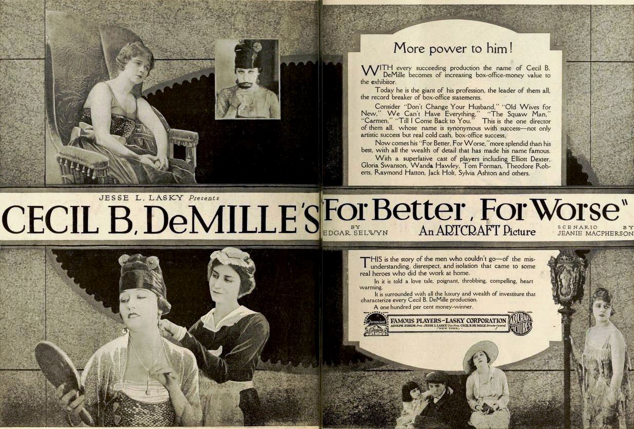 Ad for the American film For Better, for Worse (1919) with Gloria Swanson, on pages 460 and 461 of the April 26, 1919 Moving Picture World.